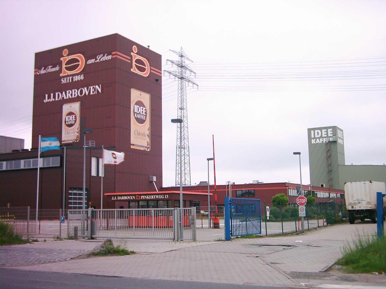 Coffee roasters J. J. Darboven in Hamburg, Germany.